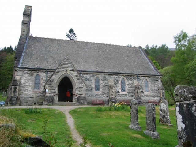 Balquhidder Church This church built in 1885 replaced the original church of 1631. The photograph was taken from site of the original church